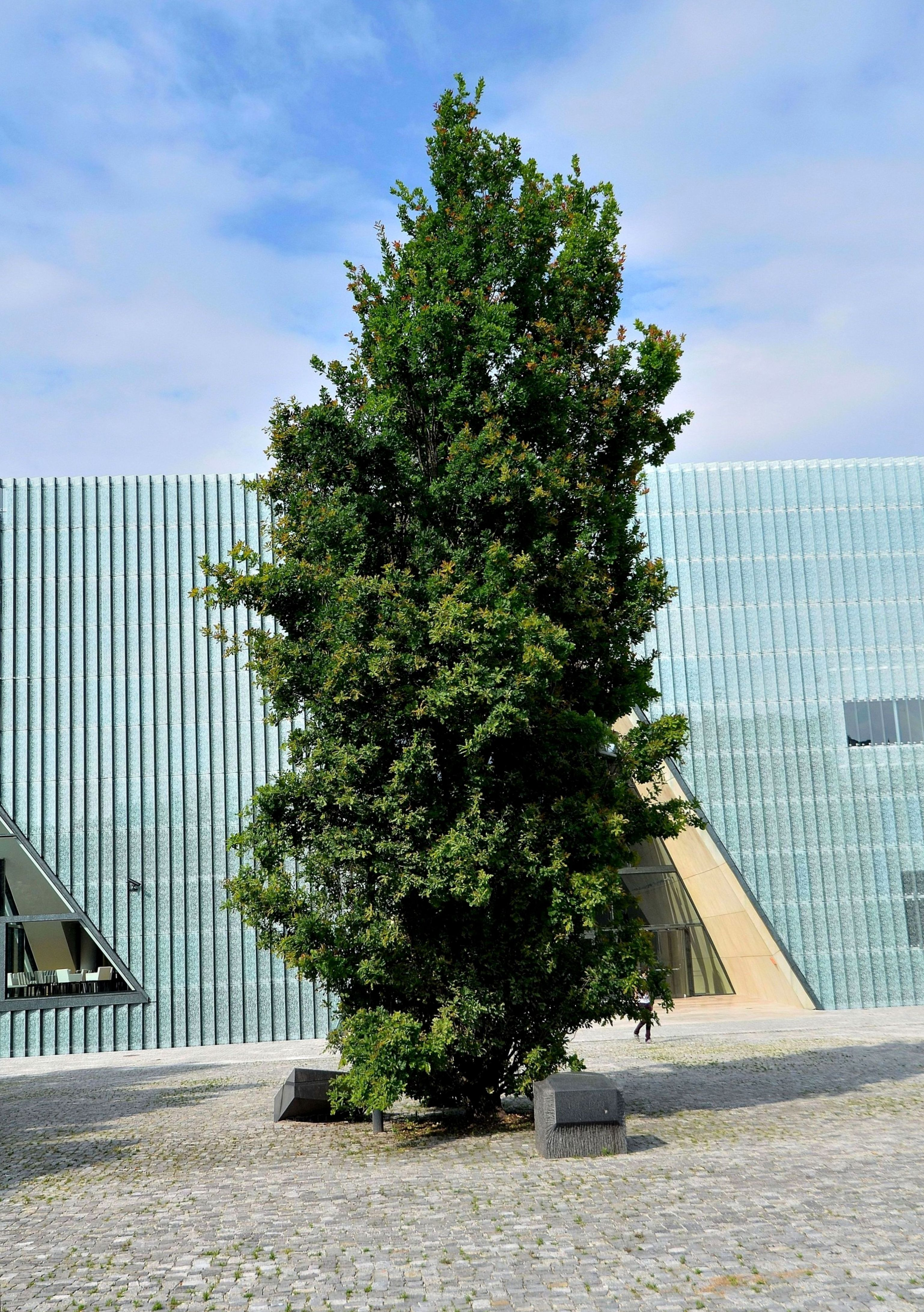 Tree of Common Polish-Jewish Memory in Warsaw